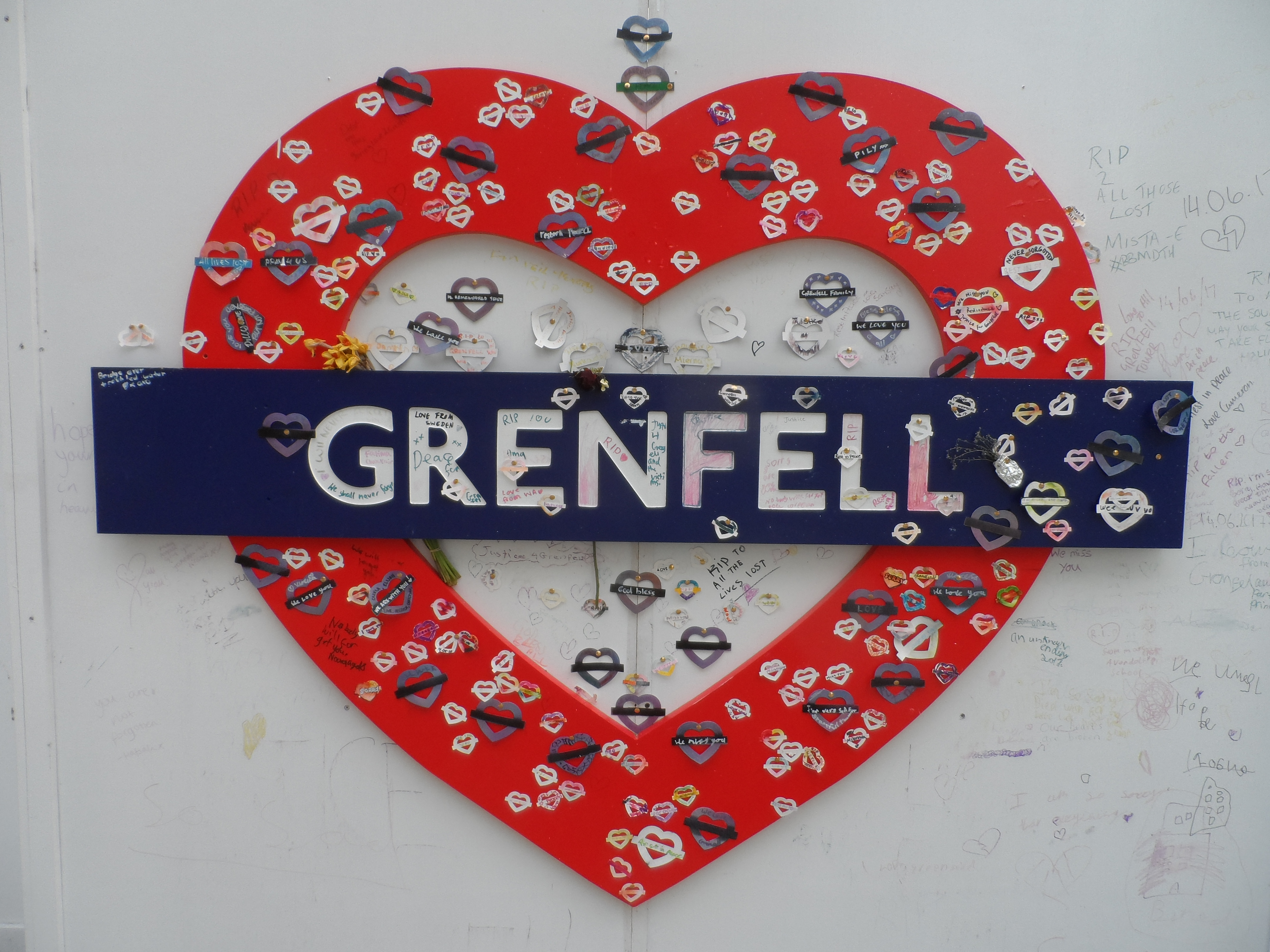 One of several photographs of temporary community memorials erected to the victims of the Grenfell Tower fire of June 2017. This memorial is on the barriers erected around the tower, this set of barriers being next to the entrance to Kensington Leisure Centre. Photographed on 9 May 2018.